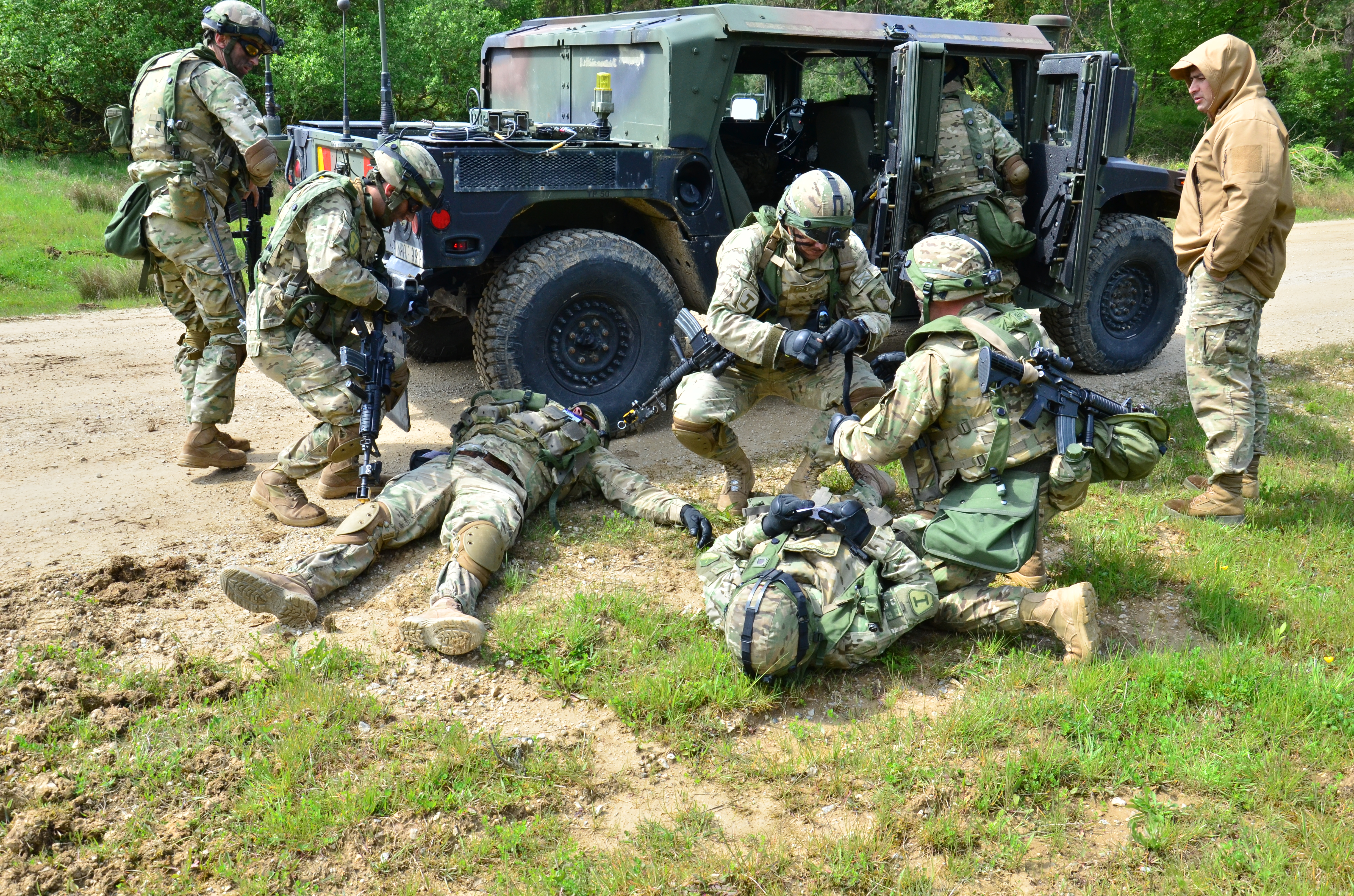 Georgian soldiers administer first aid to simulated casualties during exercise Combined Resolve II at the Joint Multinational Readiness Center in Hohenfels, Germany, May 19, 2014. Combined Resolve II is a multinational decisive action training environment exercise occurring at the Joint Multinational Training Command’s Hohenfels and Grafenwoehr Training Areas that involves more than 4,000 participants from 15 partner nations. The intent of the exercise is to train and prepare a U.S. led multinational brigade to interoperate with multiple partner nations and execute unified land operations against a complex threat while improving the combat readiness of all participants. (U.S. Army photo by Spc. John Cress Jr./Not Reviewed)